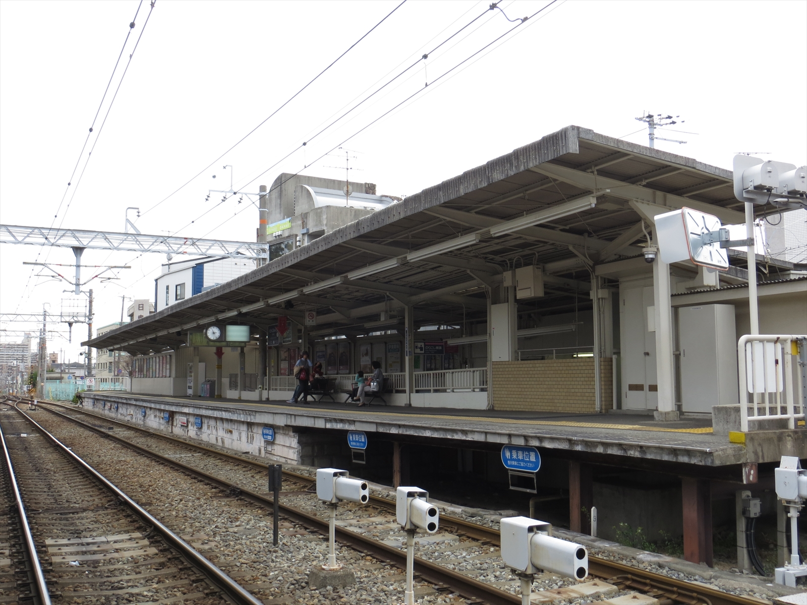 Platform from Kurakuenguchi Station.